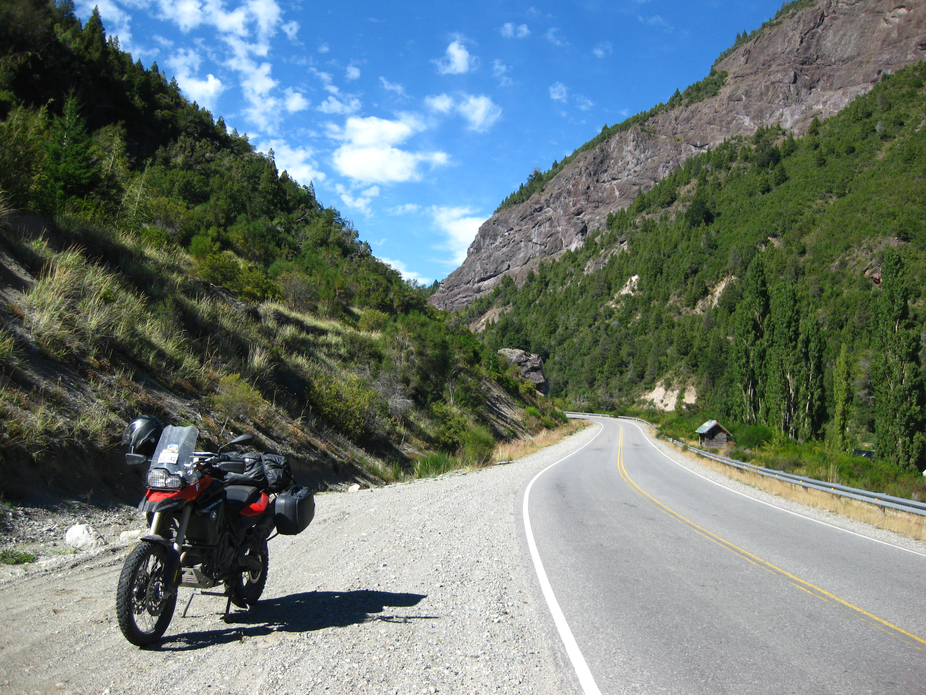 Amazing and fun roads out of El Bolsón, in Argentina. Bike shown is BMW F800GS